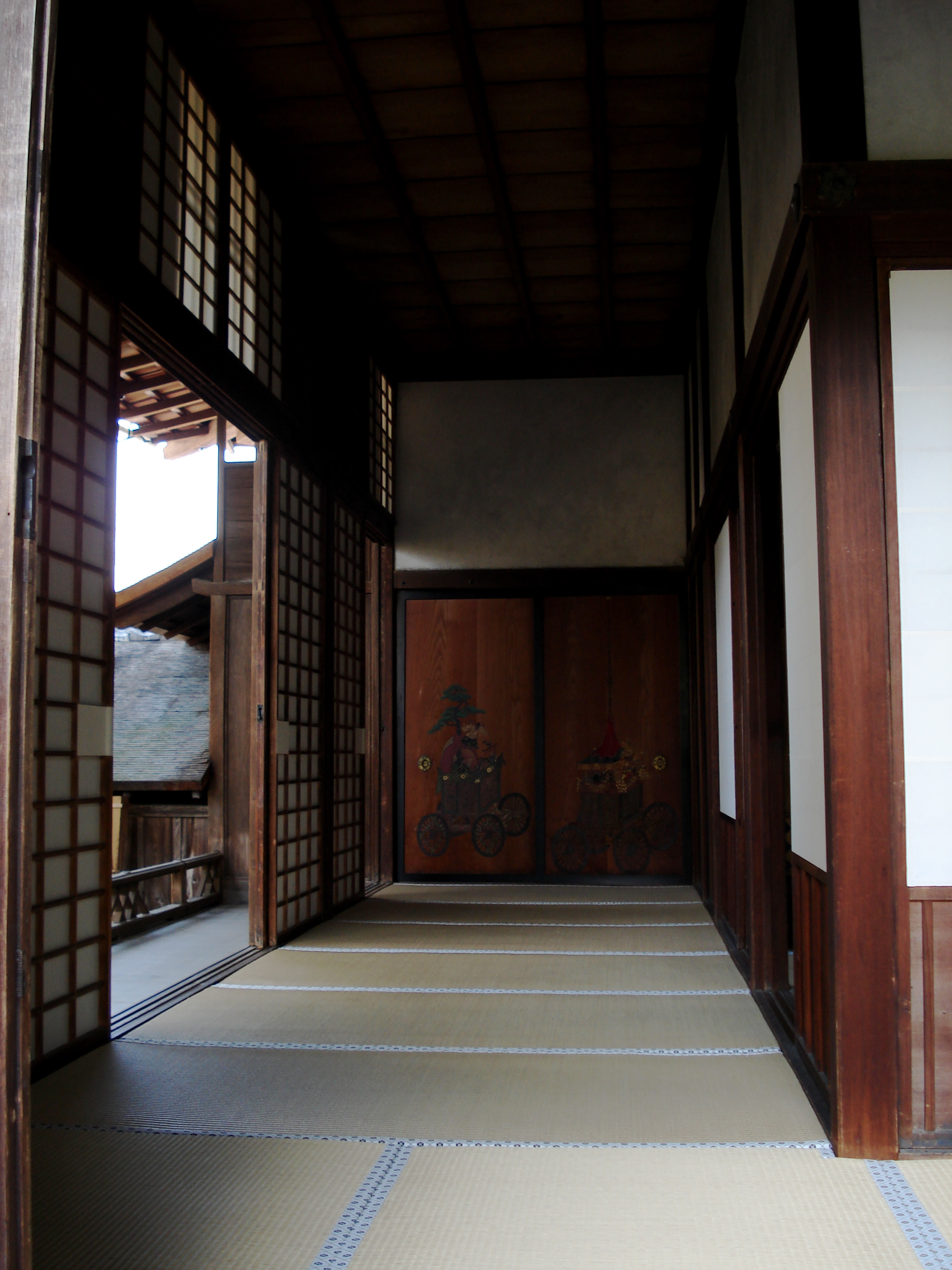 The teahouse "Naka-no-Ochaya" (中御茶屋) in the Middle Garden of the Shugakuin Imperial Villa in Kyoto, Japan. The paintings on the doors depict the floats of the Gion Festival. You can feel the warmth of woods used in these houses, and each of the them has a lovely view of gardens.